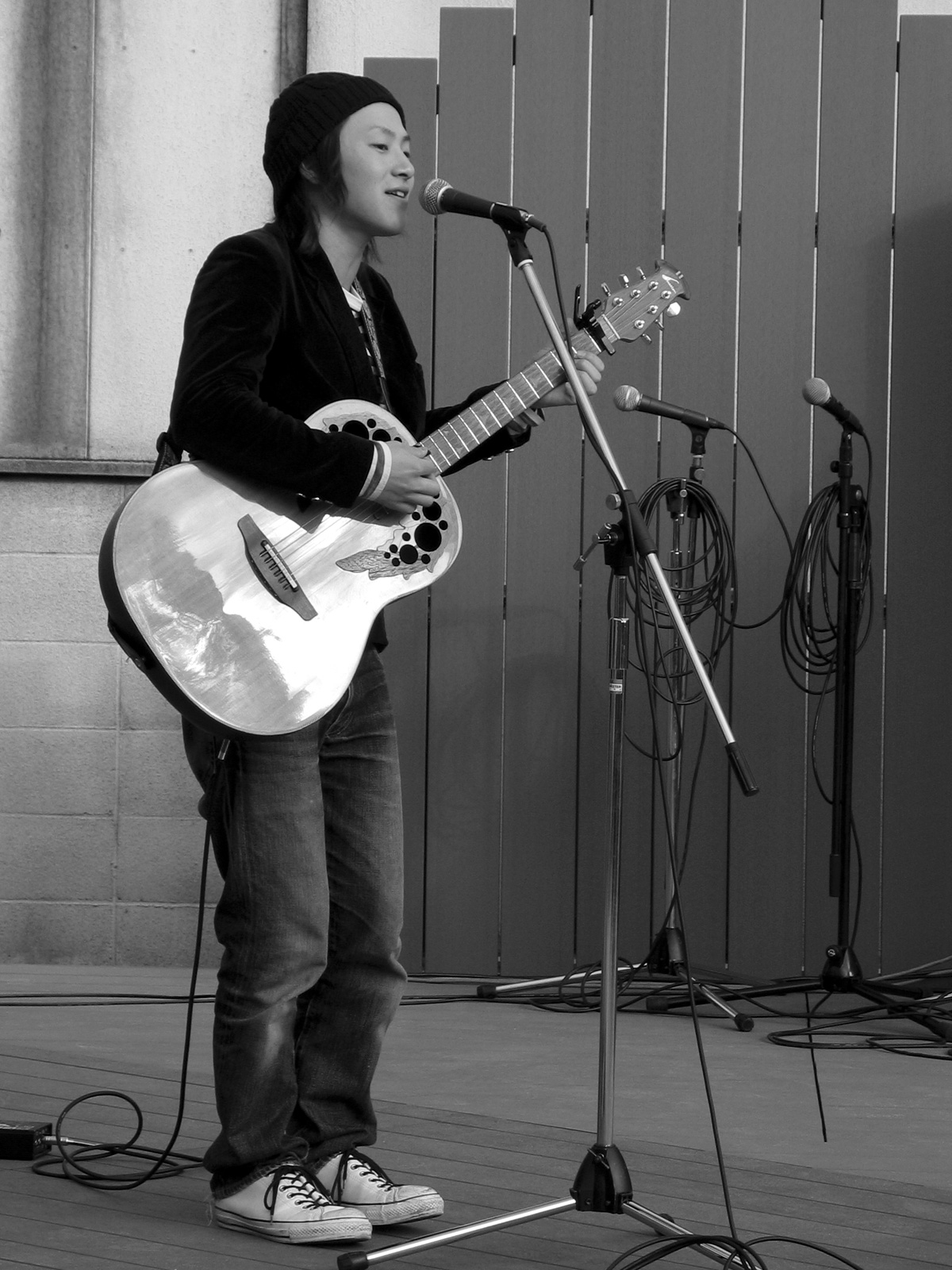 Tsu-shiMusician.